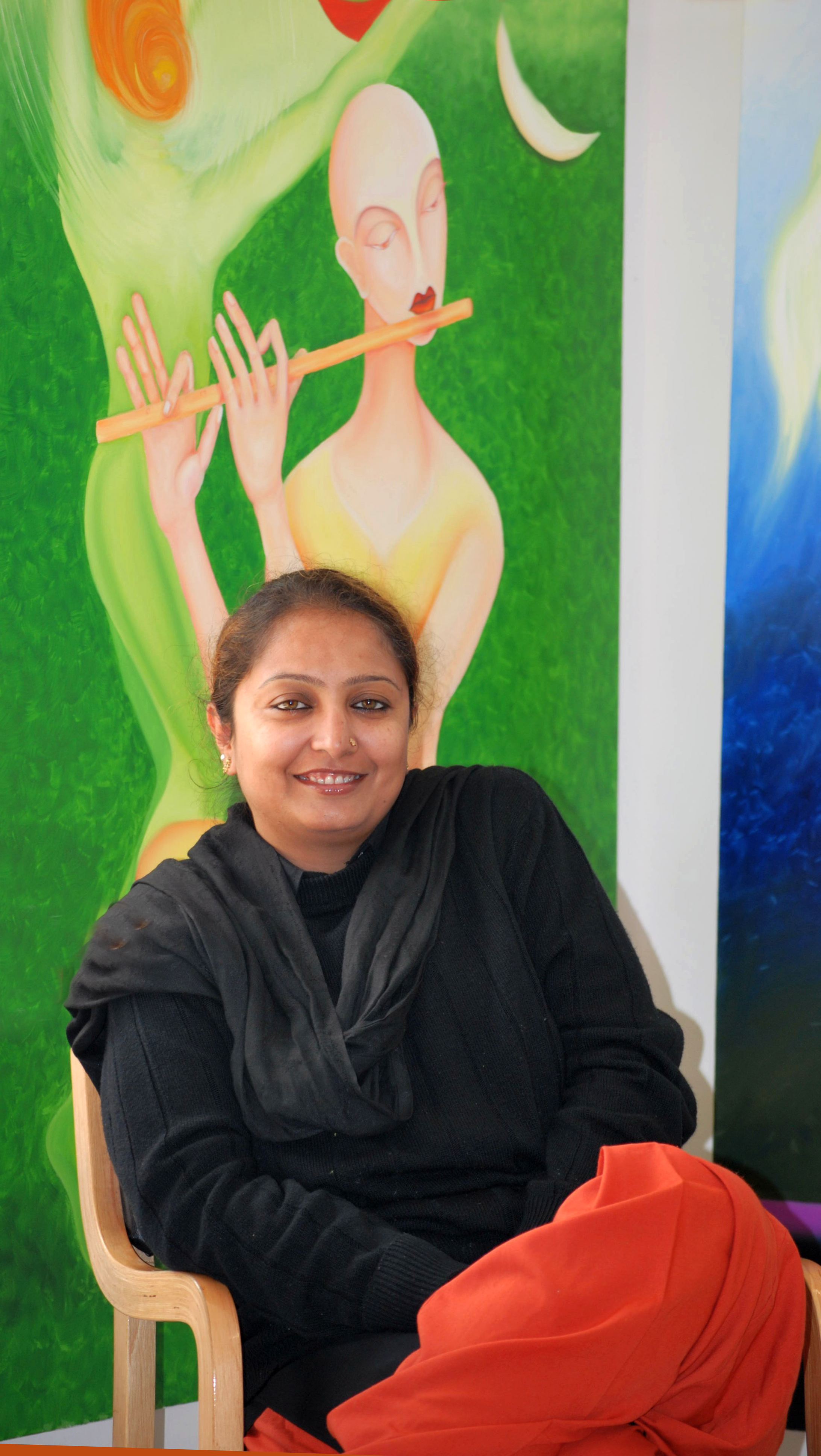 Amrita Chaudhry at Artcave infront of a painting- Nee Dhartiye